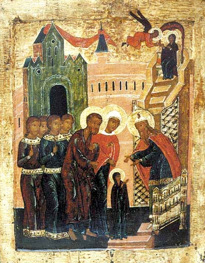 The Presentation of the Virgin Mary in the Temple of Jerusalem (Russian icon)